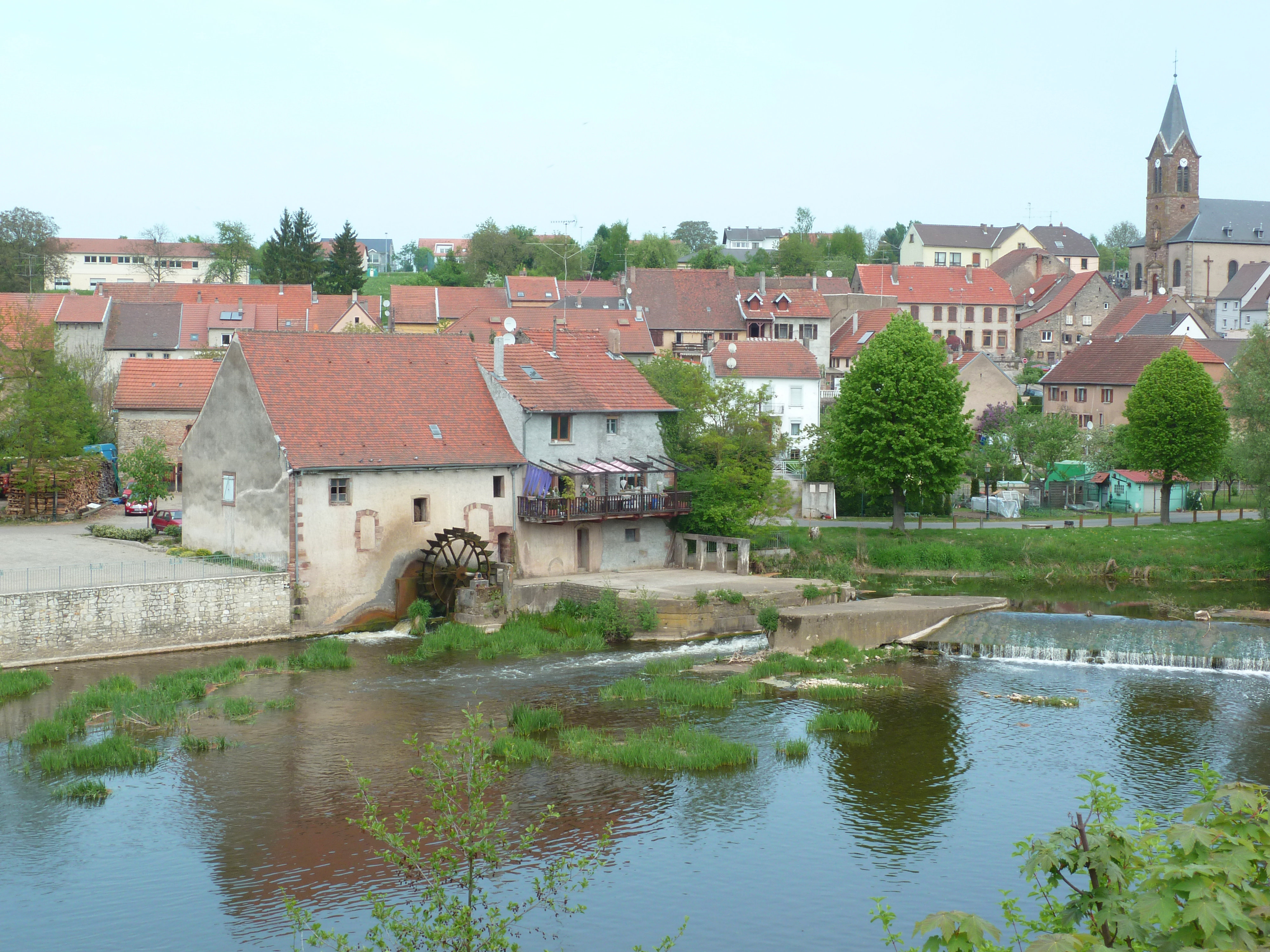 Watermill on the river Sarre in Sarreinsming